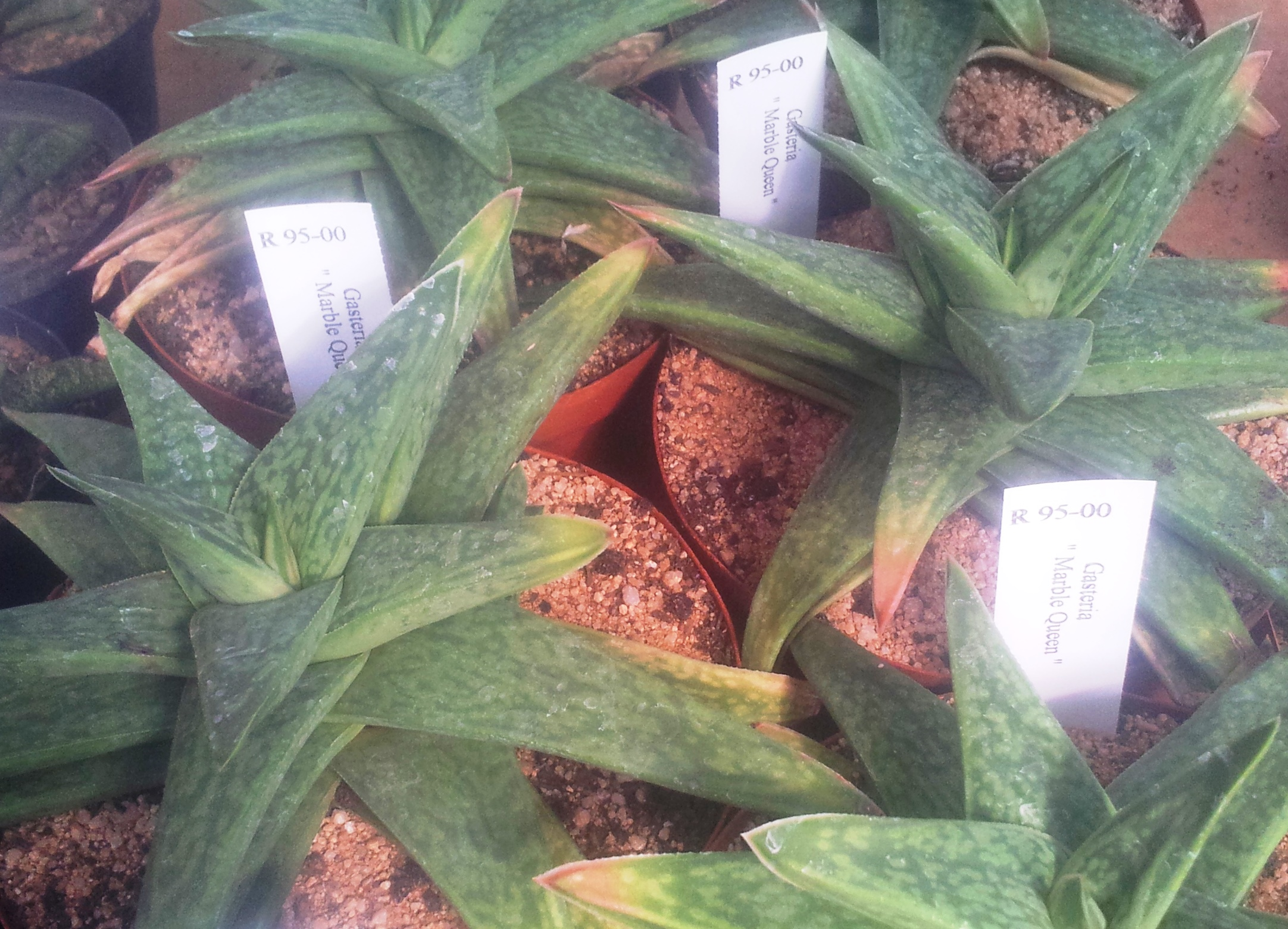 Gasteraloe hybrid named marble queen